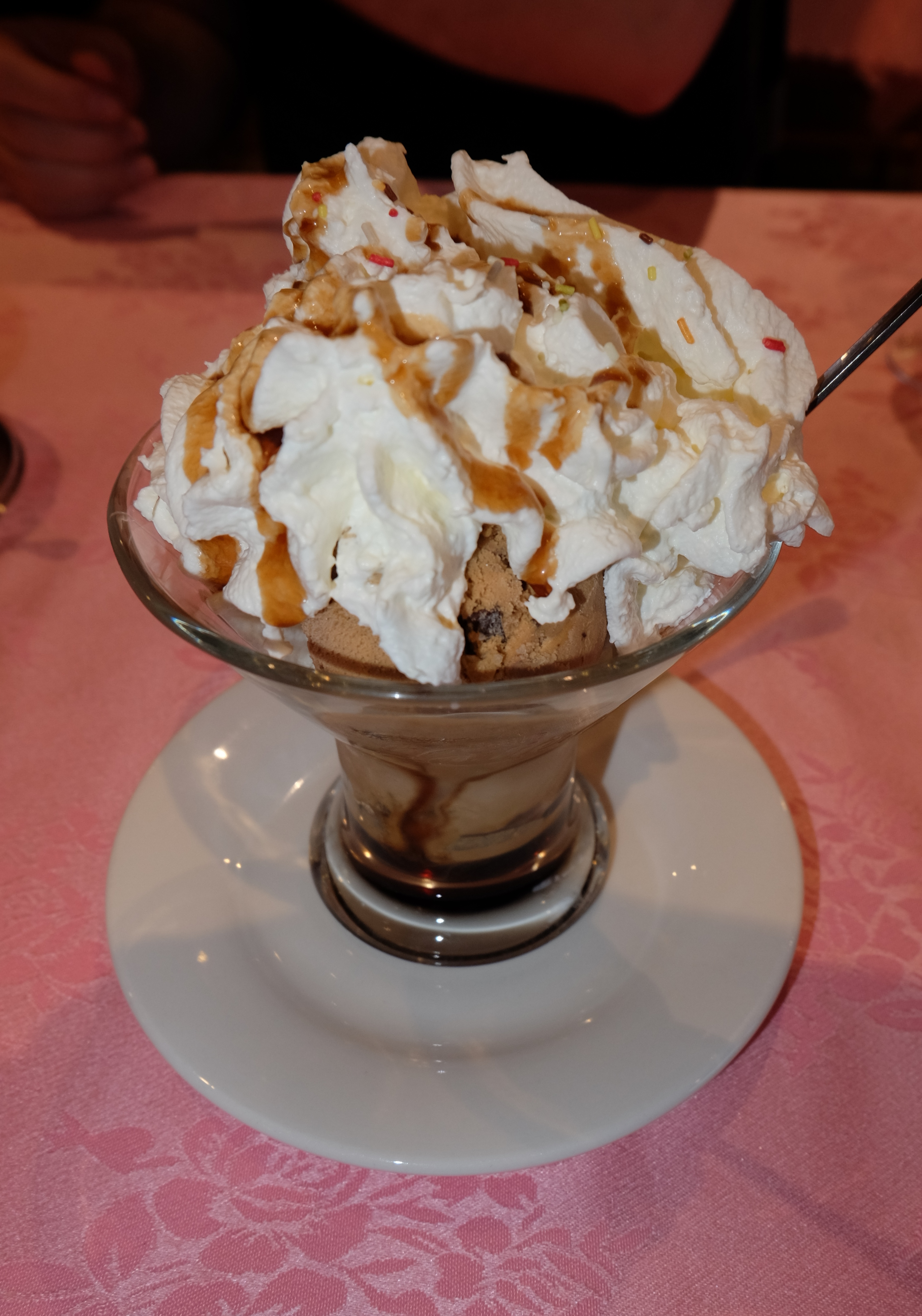 Café liégeois at the Le Mandarin restaurant in Palaiseau, France. Object location48° 42′ 42.77″ N, 2° 14′ 41.39″ E